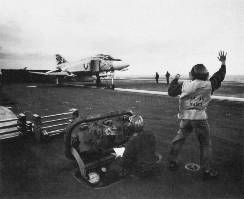 A U.S. Navy McDonnell F-4B Phantom II from Fighter Squadron VF-14 "Top Hatters" about to launch from the aircraft carrier USS John F. Kennedy (CVA-67). VF-14 was assigned to Carrier Air Wing 1 (CVW-1) aboard the JFK for a deployment to the Mediterranean Sea from 14 September 1970 to 1 March 1971.